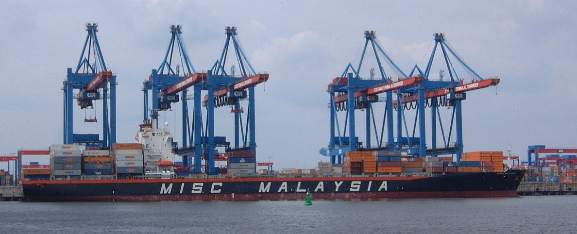 MV Bunga Raya Satu, Malaysia at the Container Terminal Altenwerder (Hamburg, Germany) IMO Number: 9157698 MMSI Number: 533298000 Callsign: 9MCR5 Length: 258 m Beam: 32 m